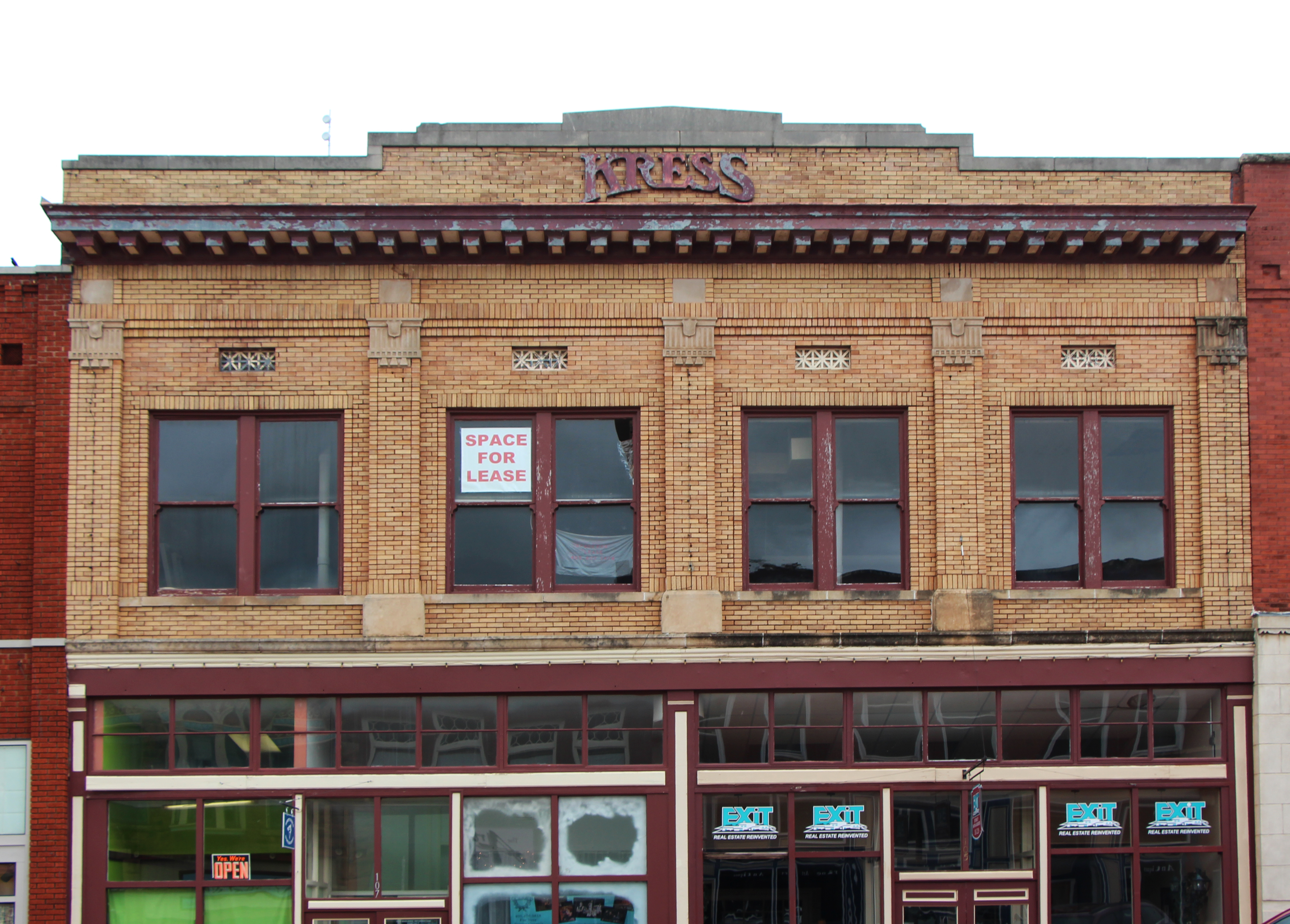 Kress Building, Guthrie, Oklahoma